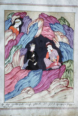 16C page from Rustaveli's epic, The Knight in the Panther's Skin